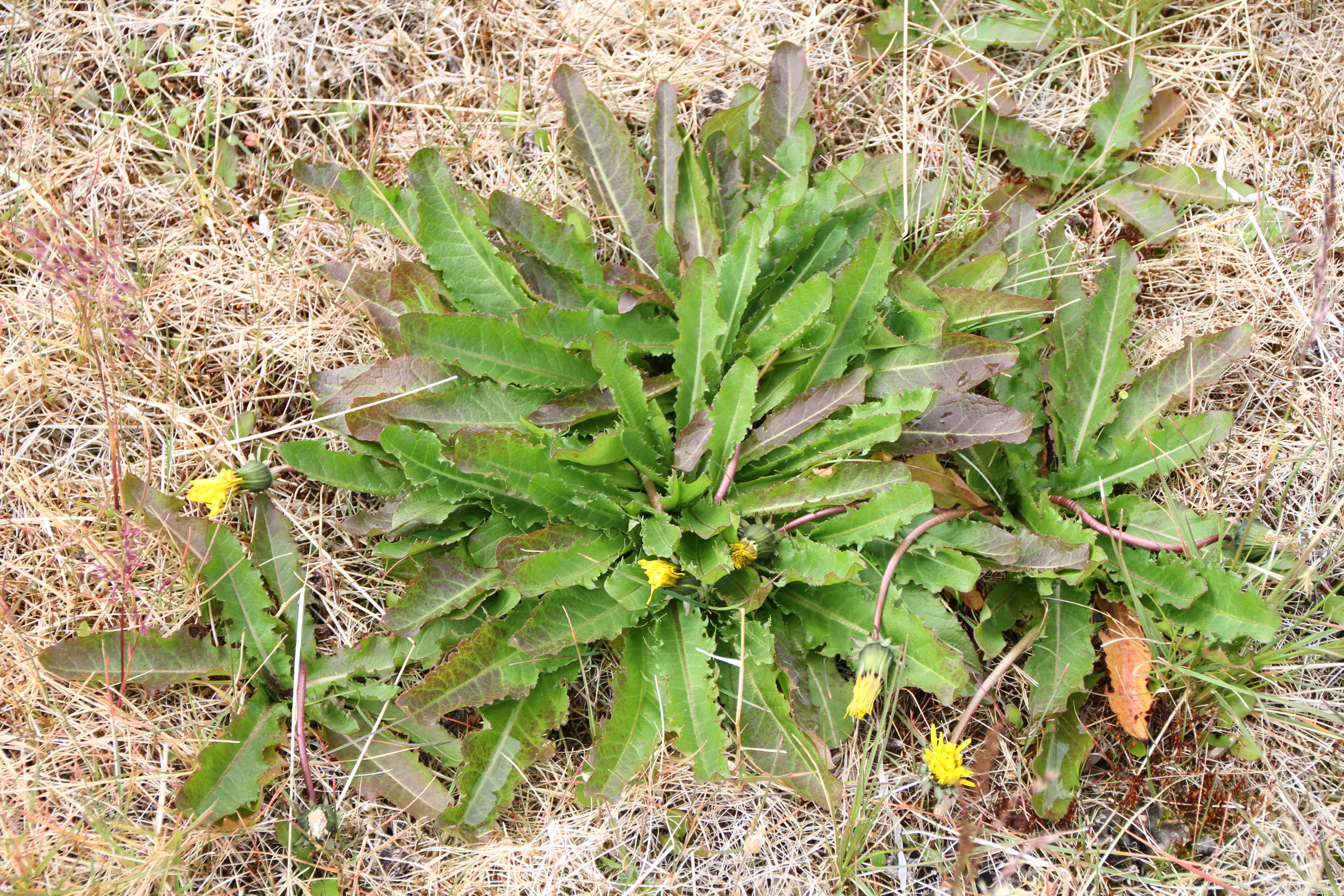 Flowers observed in Pyramiden at central Spitsbergen, Svalbard.